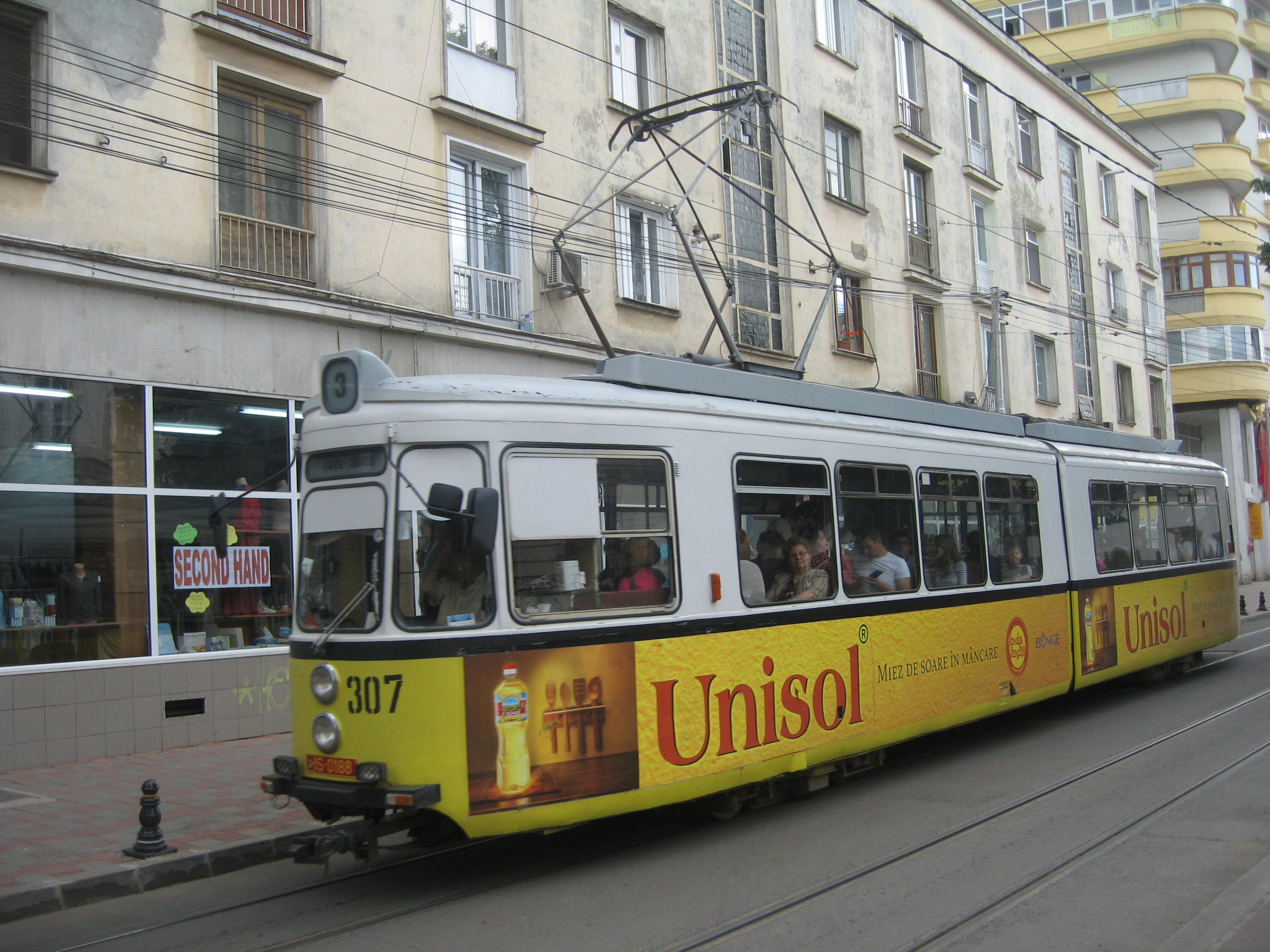 Tram No. 307 in Iasi is ex-Stuttgart 620, a 1963 type-GT4 tram acquired secondhand by Iasi in 1997.